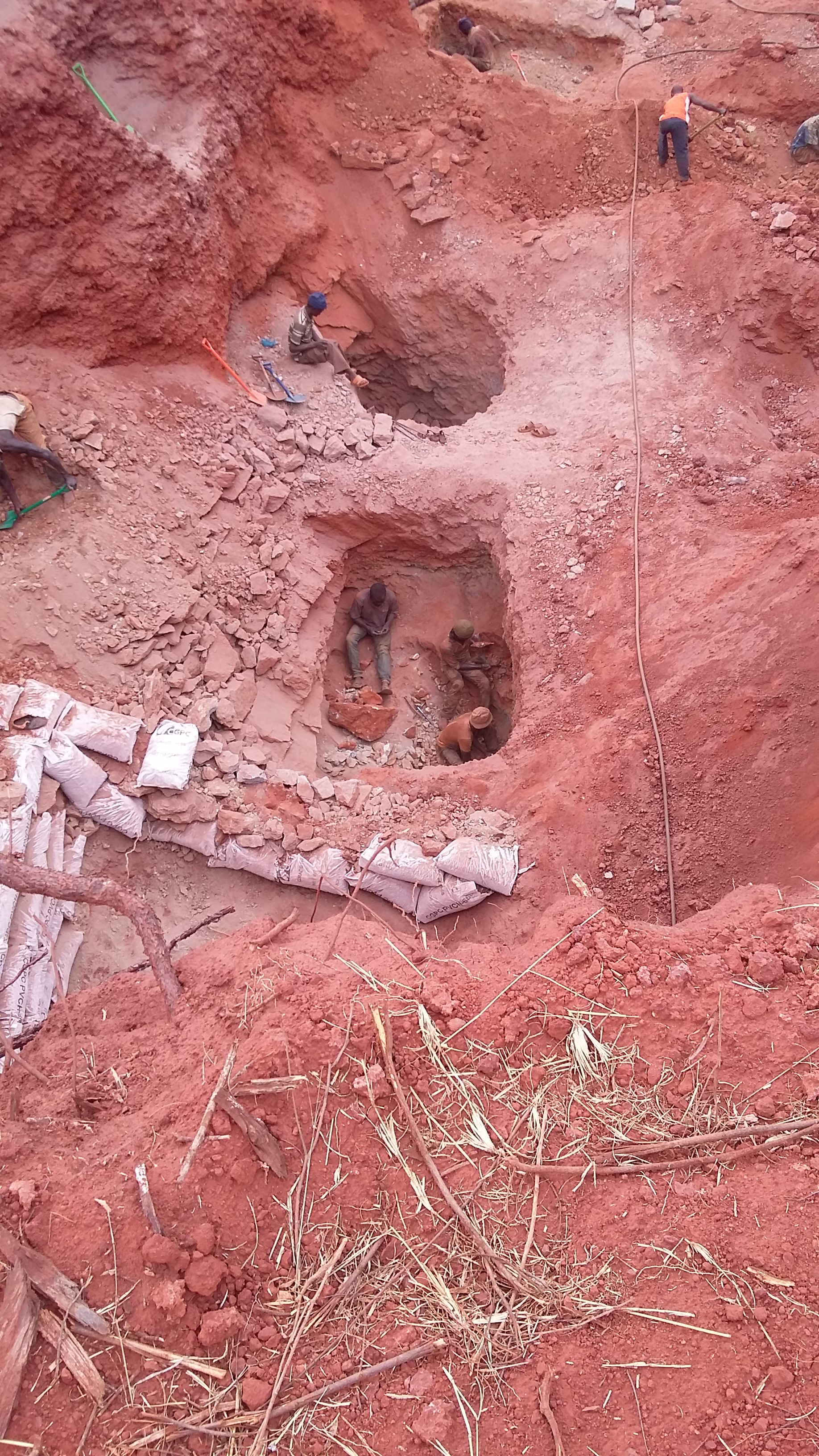 Men at work at a gemstone mining deposit in Mwatate, Taita Taveta county in Kenya. Gemstone is a source of livelihood in this part of the region This is an image of "African people at work" from Kenya